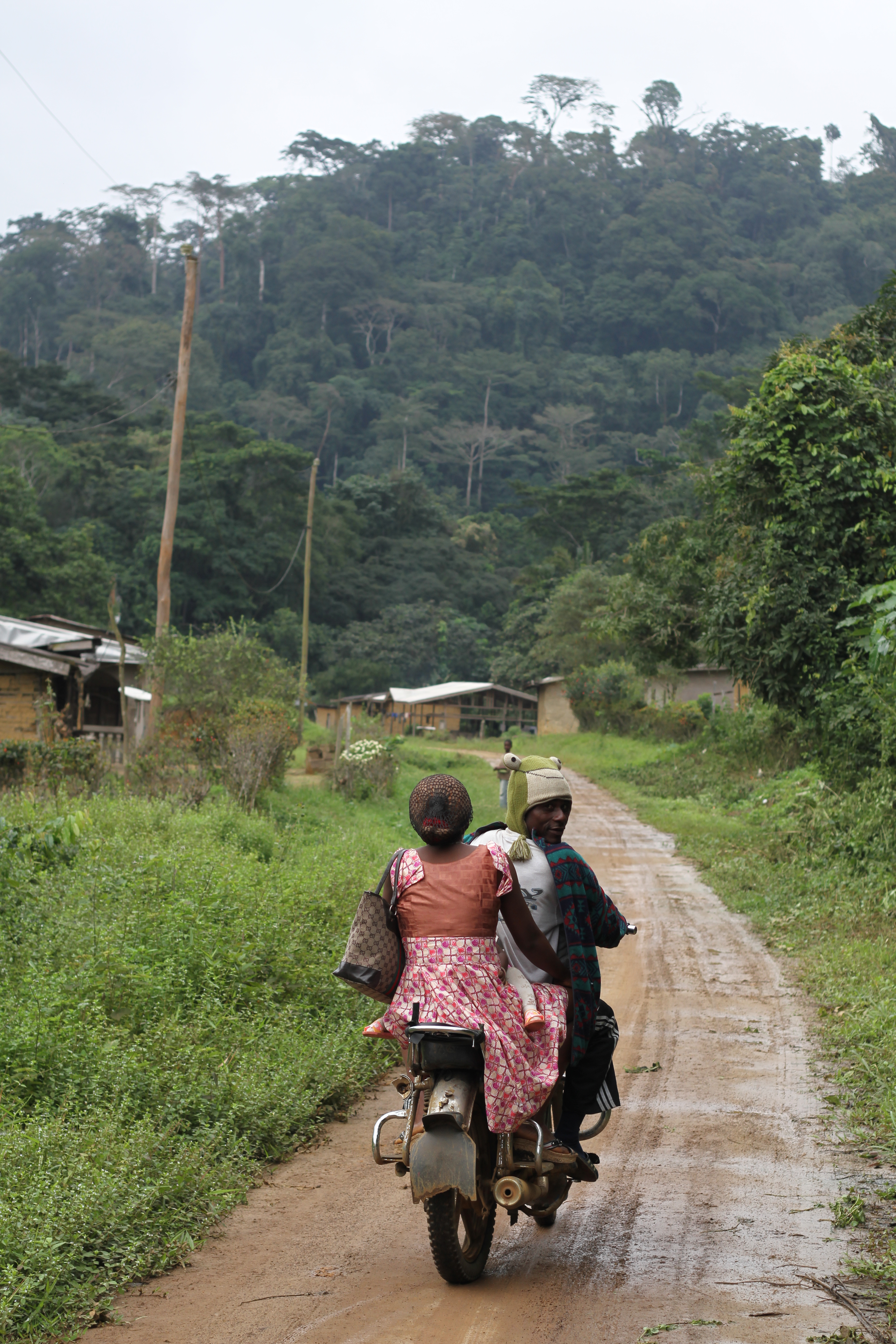 Tayap village (Cameroon)